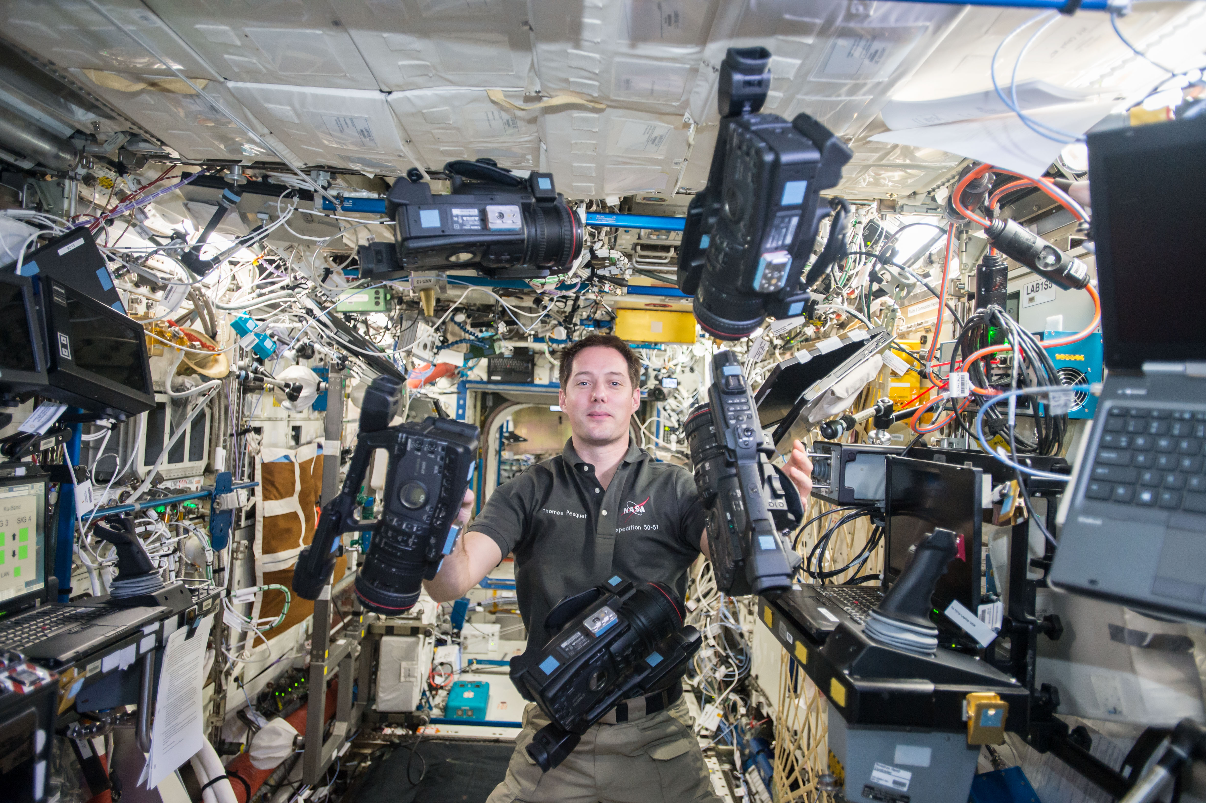 Expedition 50 flight engineer Thomas Pesquet of ESA (European Space Agency) juggles a set of video cameras in the microgravity environment of the International Space Station.